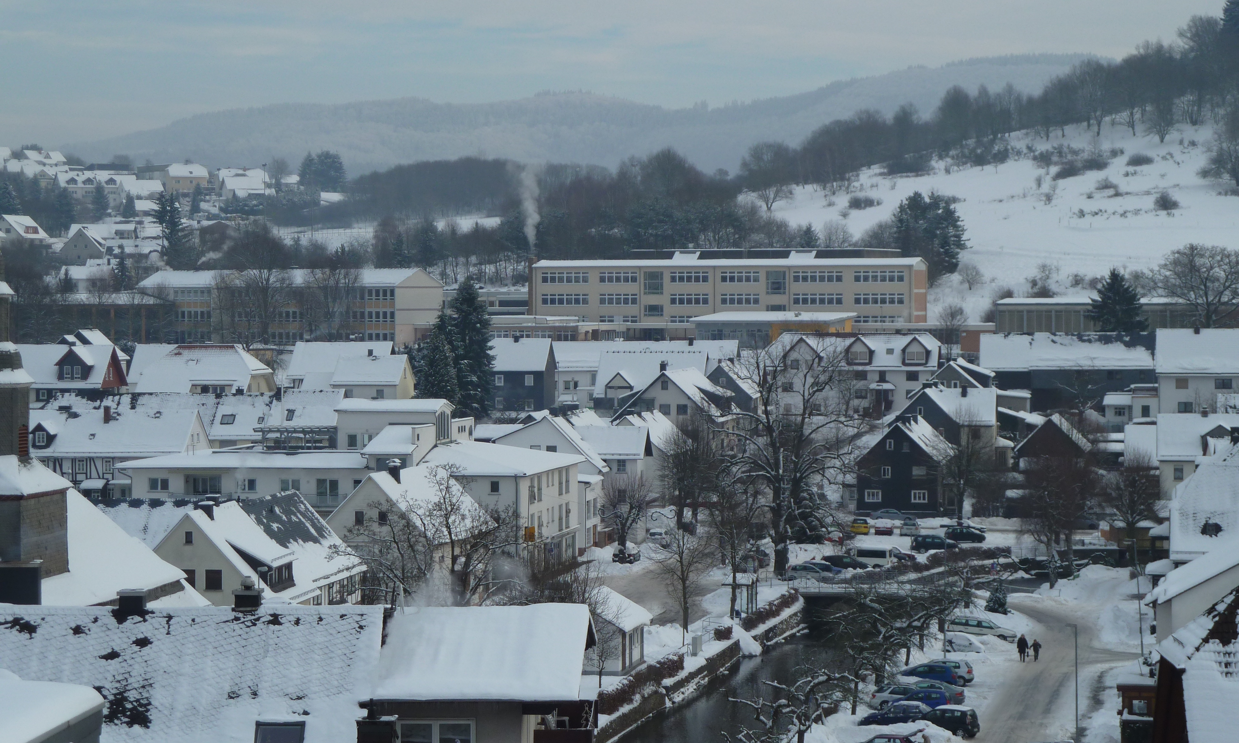 Holderberg-school in Eibelshausen, Germany